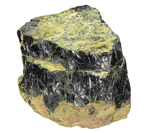 Euxenite-(Y) Locality: Luella Pegmatite, Trout Creek Pass pegmatite District, Buena Vista, Chaffee County, Colorado, USA (Locality at ) Size: 5.8 x 4.8 x 3.3 cm. This locality is one of many rare-earth pegmatites along the front range of Colorado. Specimens of Euxenite from Colorado are not terribly common, and are often only found in old collections. Field collectors do not often find many specimens of Euxenite these days, and rich specimens such as this one are hard to find. This piece shows the typical greasy luster and black color for a Colorado Euxenite. A good reference specimen from the Richard A. Kosnar collection.